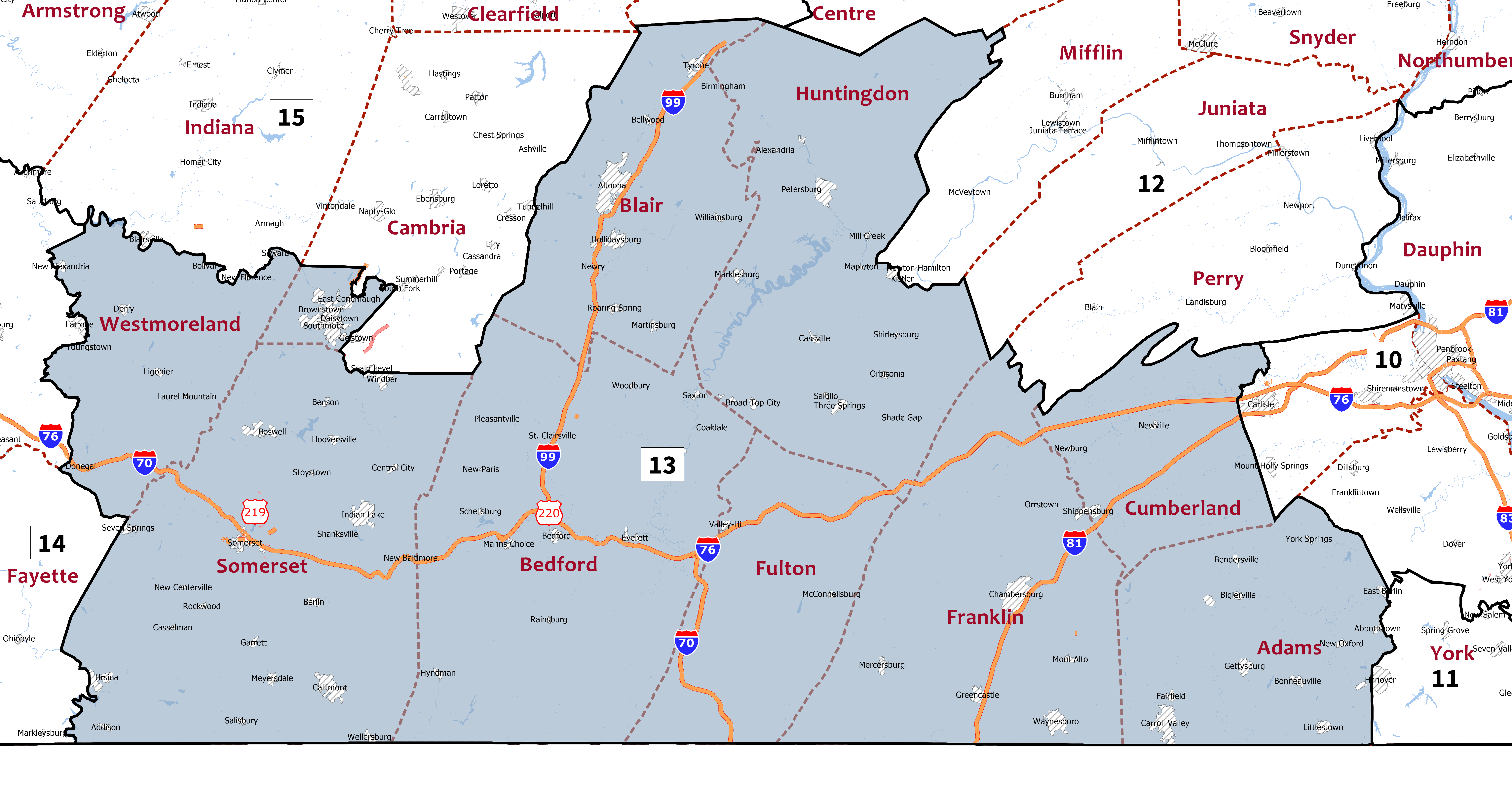 Pennsylvania congressional district 13